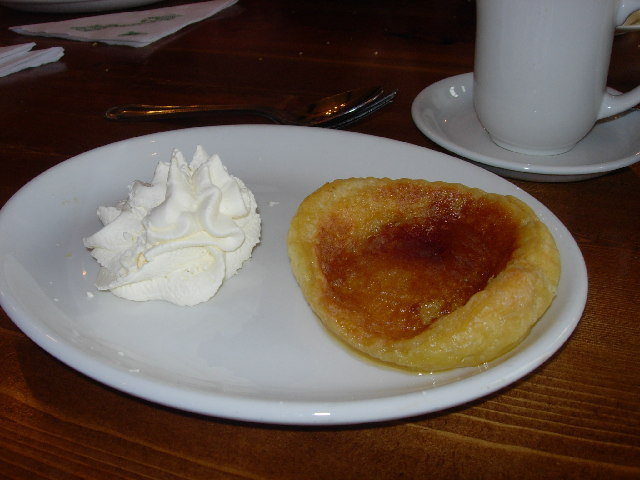 Bakewell Pudding! The 'eponymous' pudding (NB not tart) glimpsed, before being gobbled, in the Original Bakewell Pudding Shop